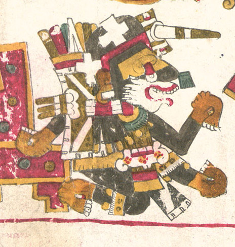 A drawing of Nanahuatzin, one of the deities described in the Codex Borgia